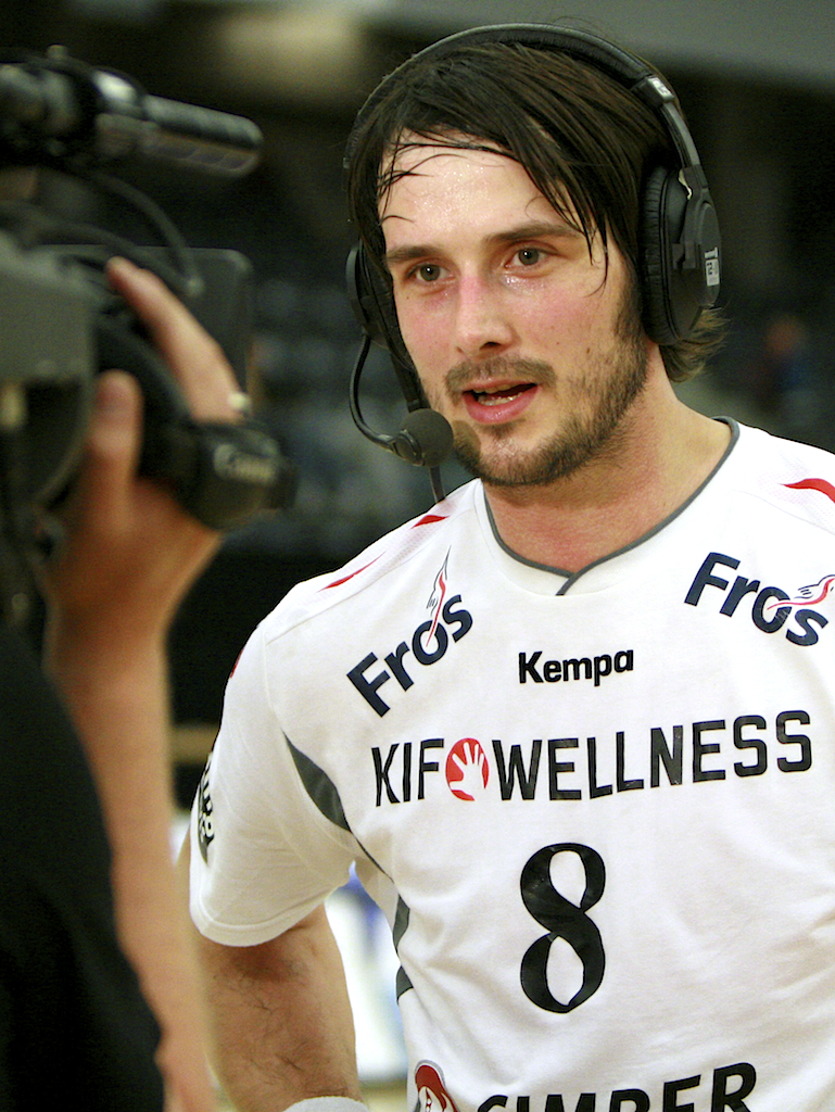 Bo Spellerberg from KIF Kolding.